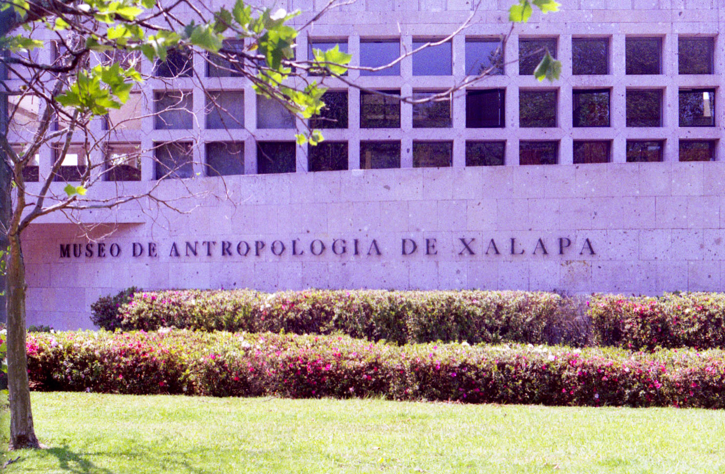 The entrance to the archeological museum in Jalapa/Xalapa, Veracruz, Mexico